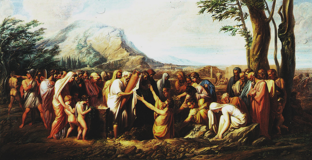 The burial of the ashes of Themistocles in the Attic land.label QS:Len,"The burial of the ashes of Themistocles in the Attic land."label QS:Lit,"La sepoltura delle ceneri di Temistocle in terra attica."